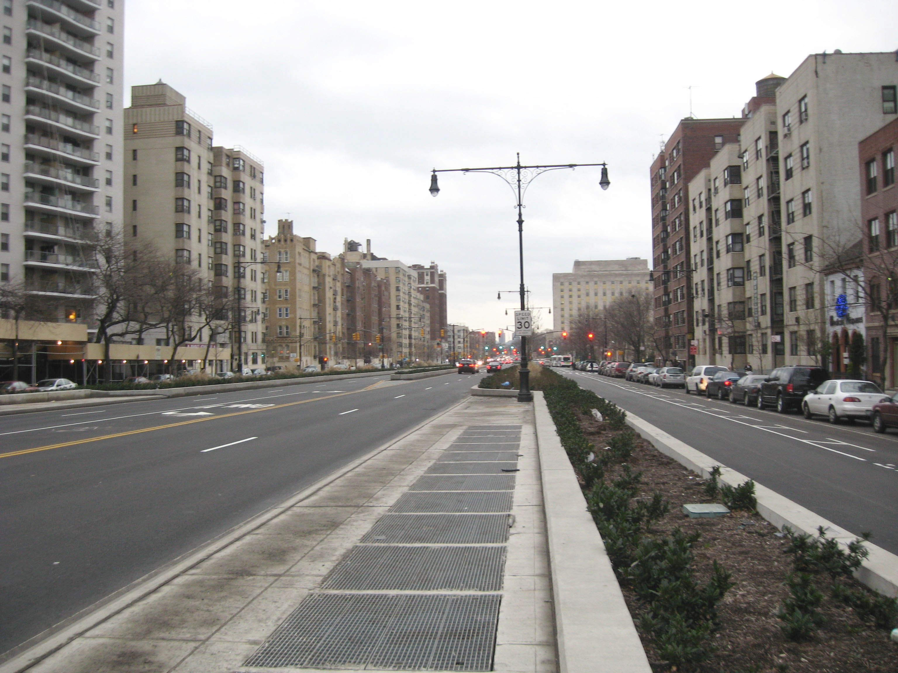 Looking south on Grand Concourse (Bronx) at 165th Street on a cloudy afternoon. See also File:Grand Concourse 197 jeh.JPG